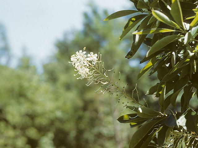 Elliottia racemosa USBG image